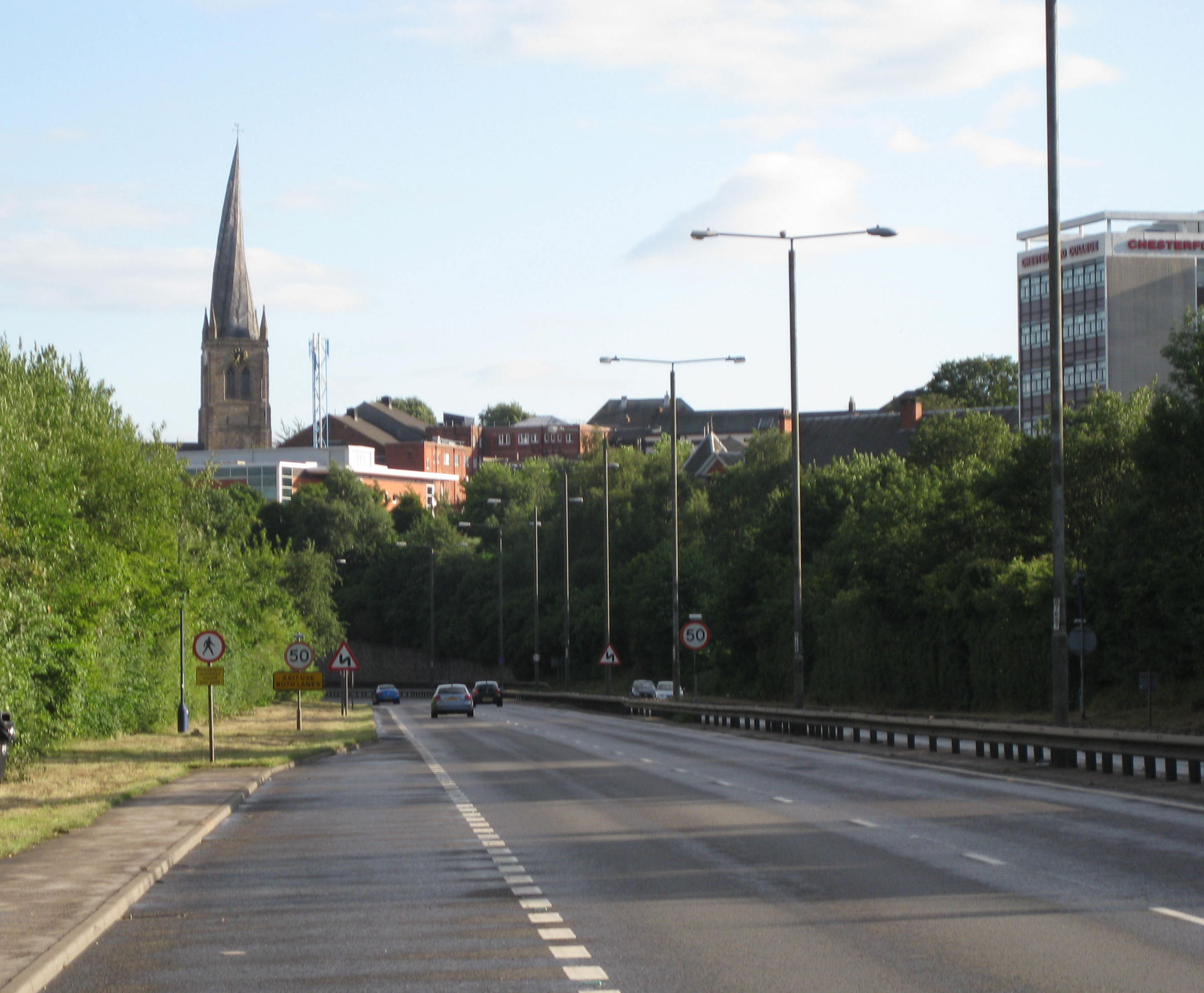 A61 road going south past Chesterfield, with the crooked spire visible.